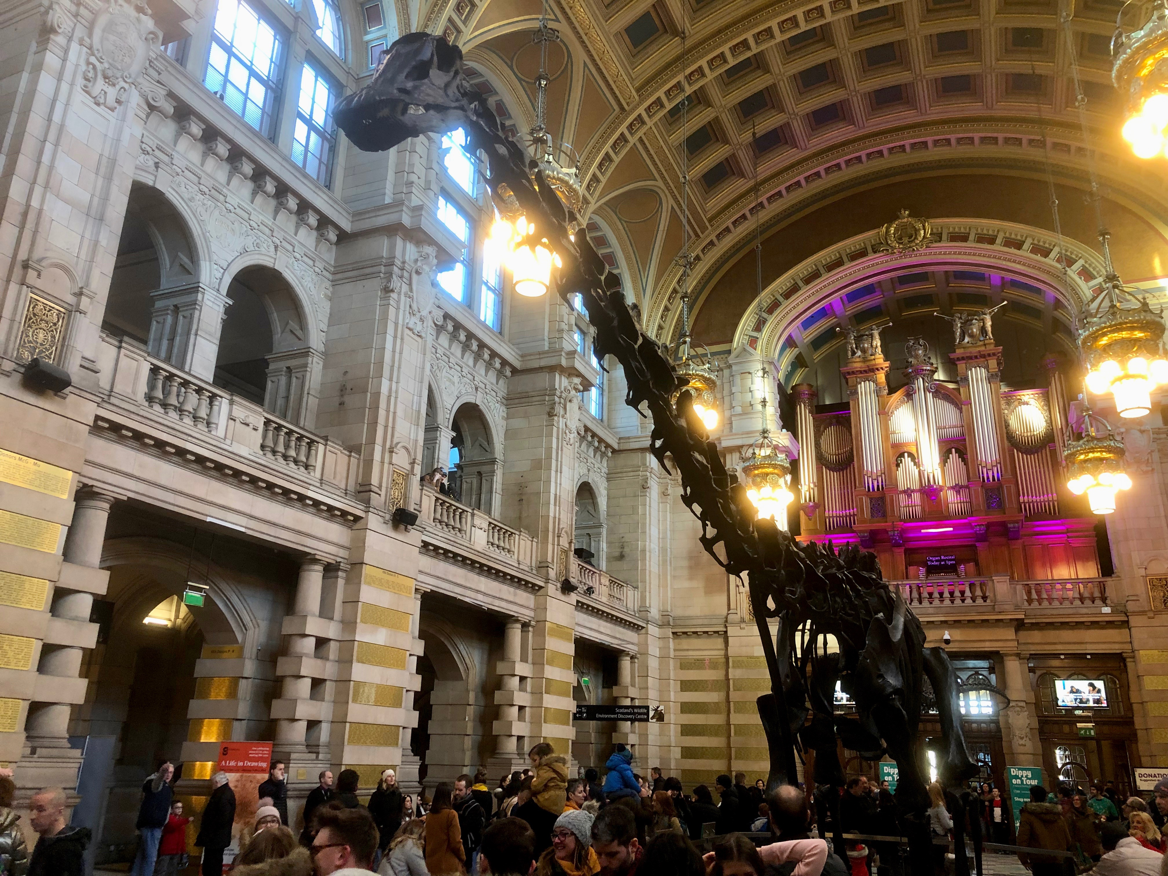 Dippy the Diplodocus carnegii cast at the Kelvingrove Art Gallery and Museum as part of Dippy on Tour in 2019. The original fossil skeleton was found in Wyoming in 1899, and it was owned by Andrew Carnegie who financed its excavation, and made it a feature of his Carnegie Museum of Art, Pittsburgh. The replica was cast in plaster and installed in the Natural History Museum, London in 1905, one of ten casts in museums worldwide.